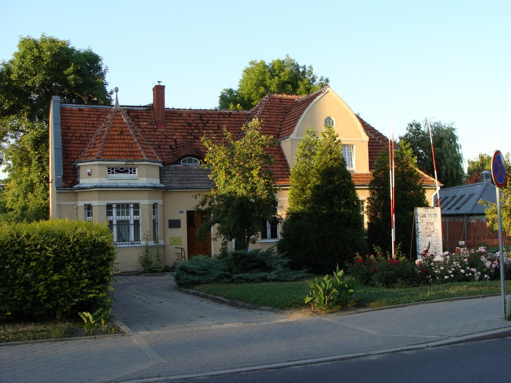 Śrem, museum